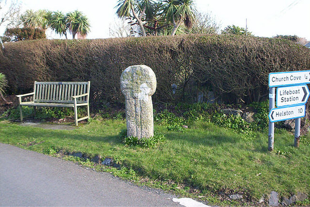 Cornish Cross in The Lizard Just by the road junction.